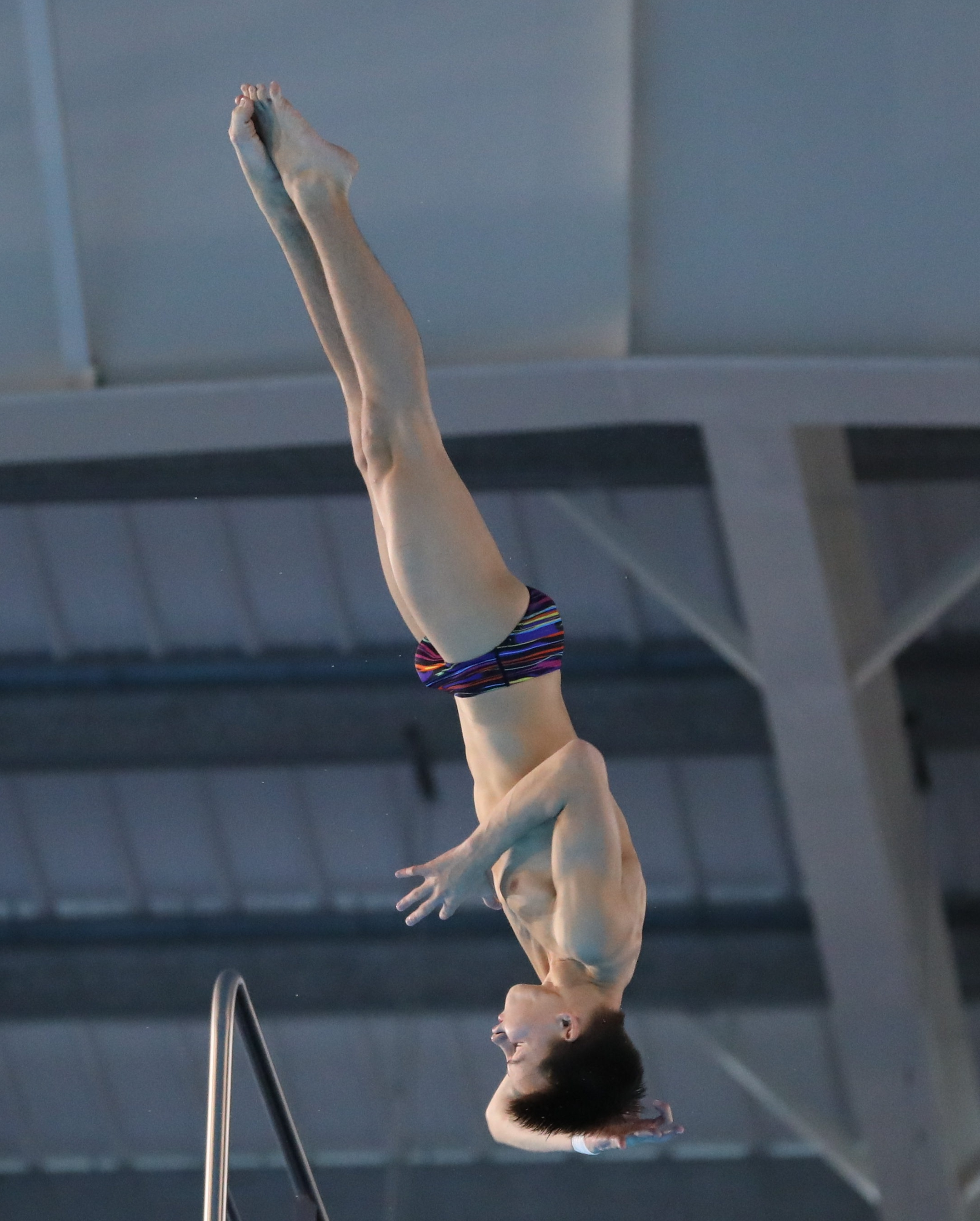 Boys' Diving, 10 m platform, Final: Jump 5